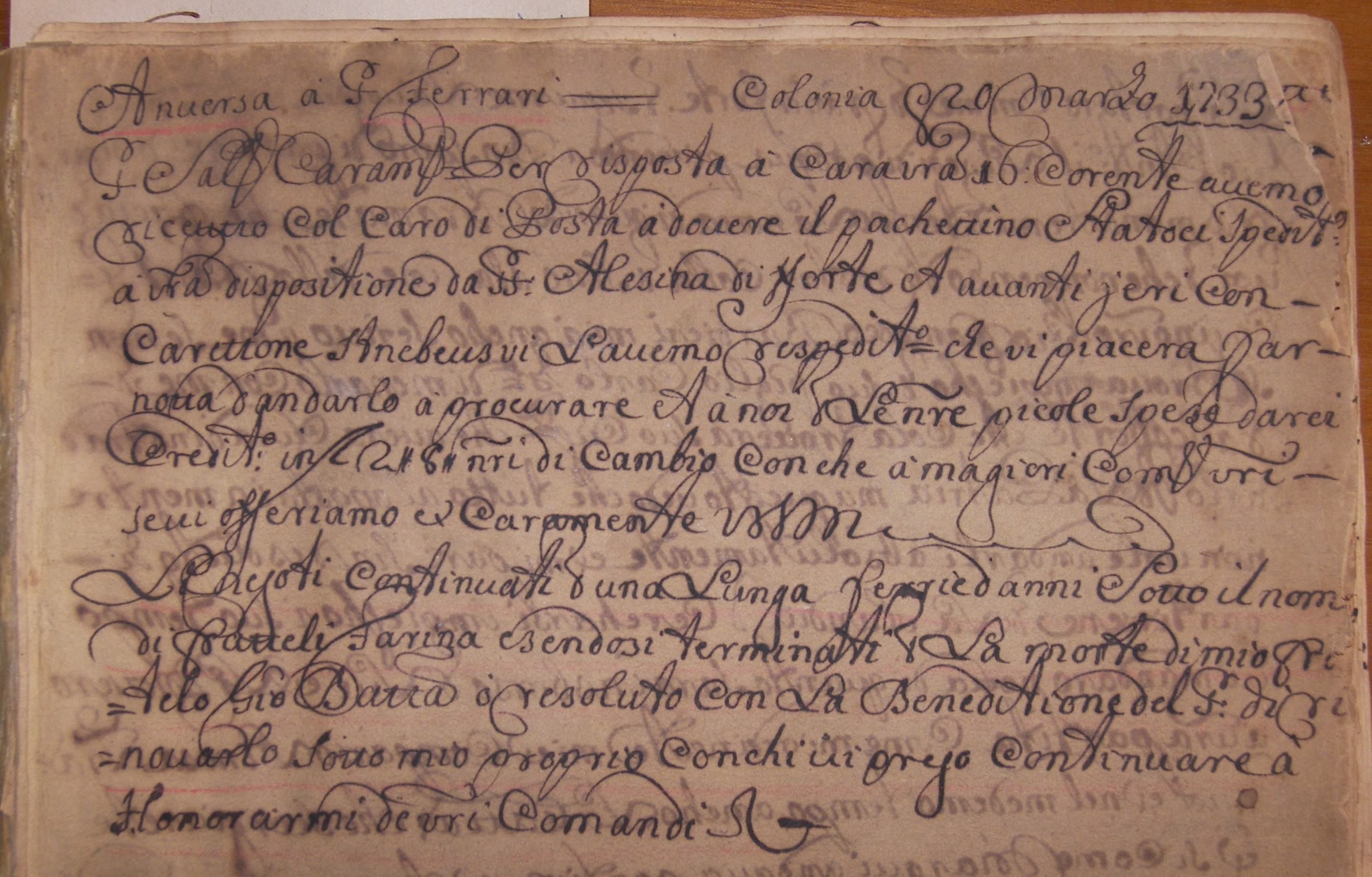 Letter by Johann Maria Farina to Ferrari